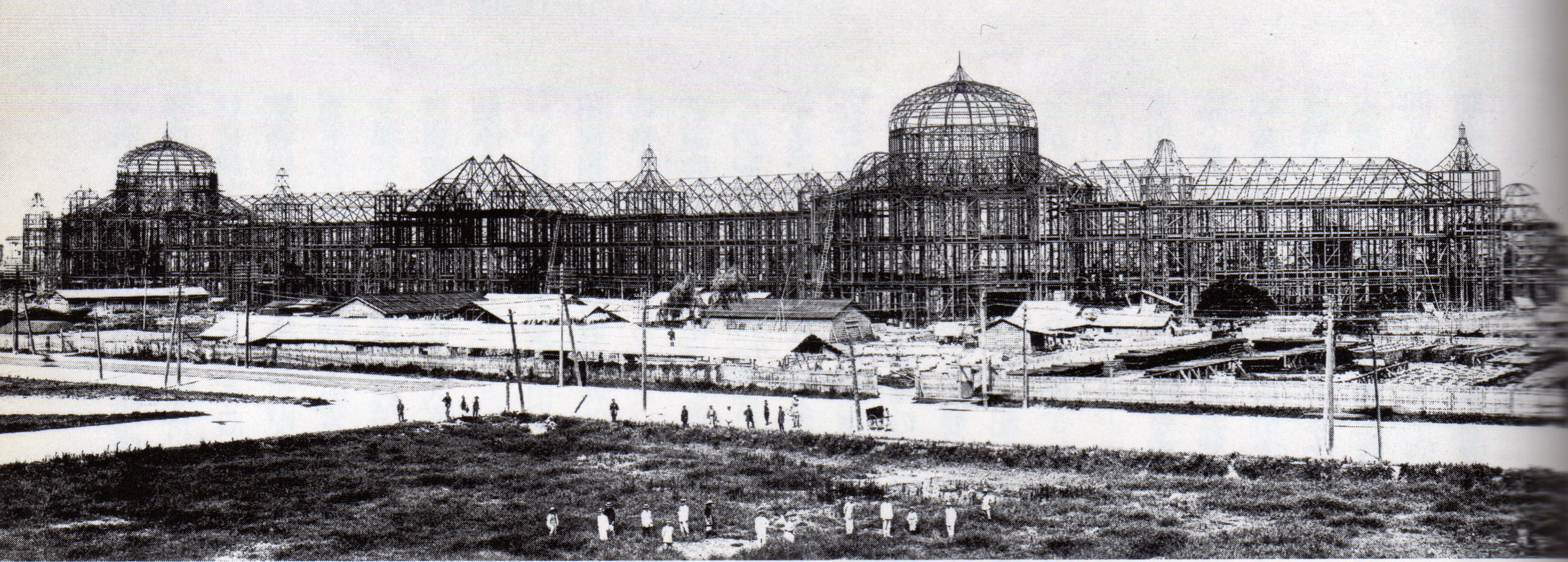 Construction work of Tokyo station Marunouchi building. This is the steel framework, completed in September 1911.